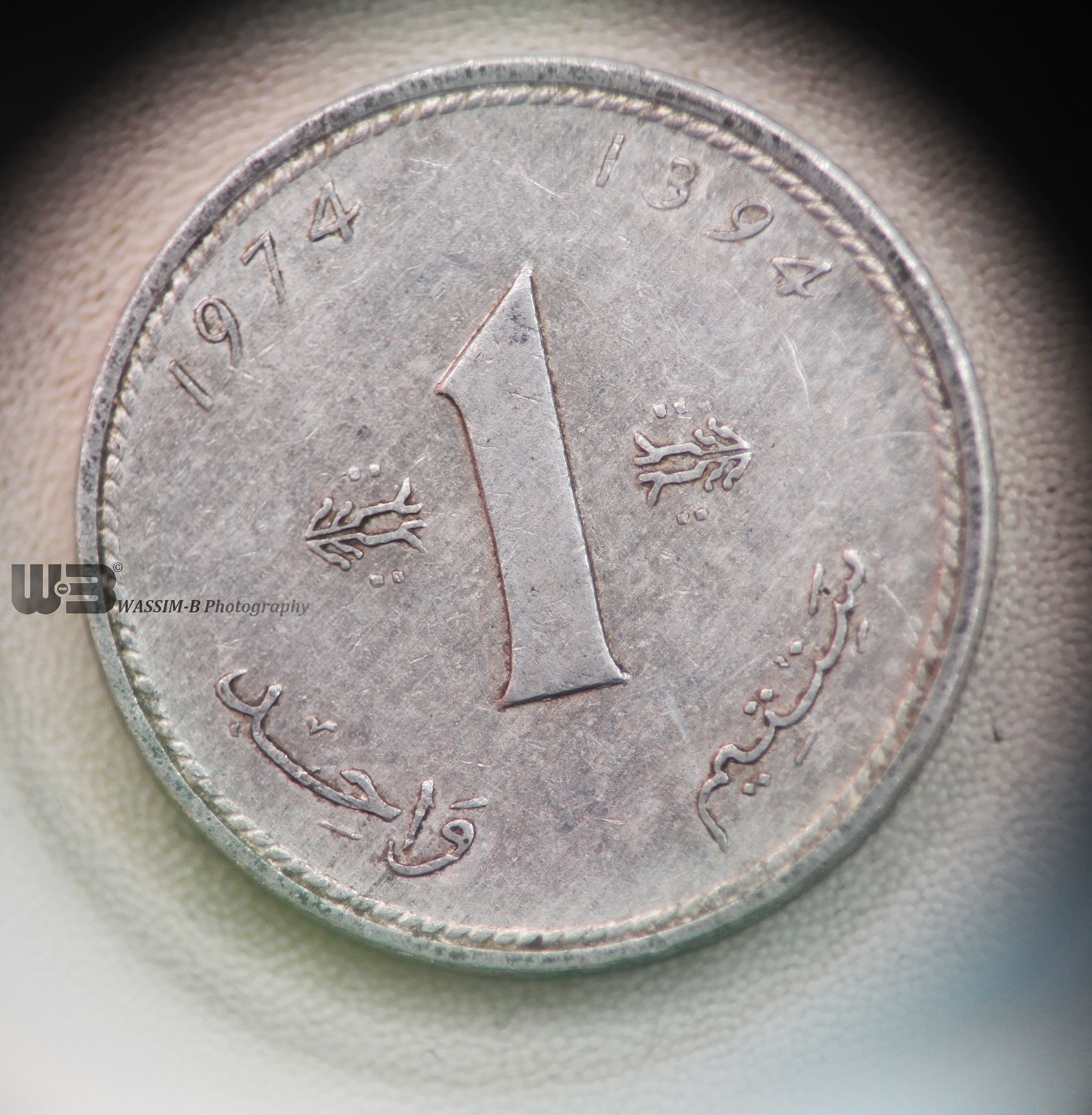 Moroccan Cent, African Tresore This is an image of Cultural Fashion or Adornment from Morocco